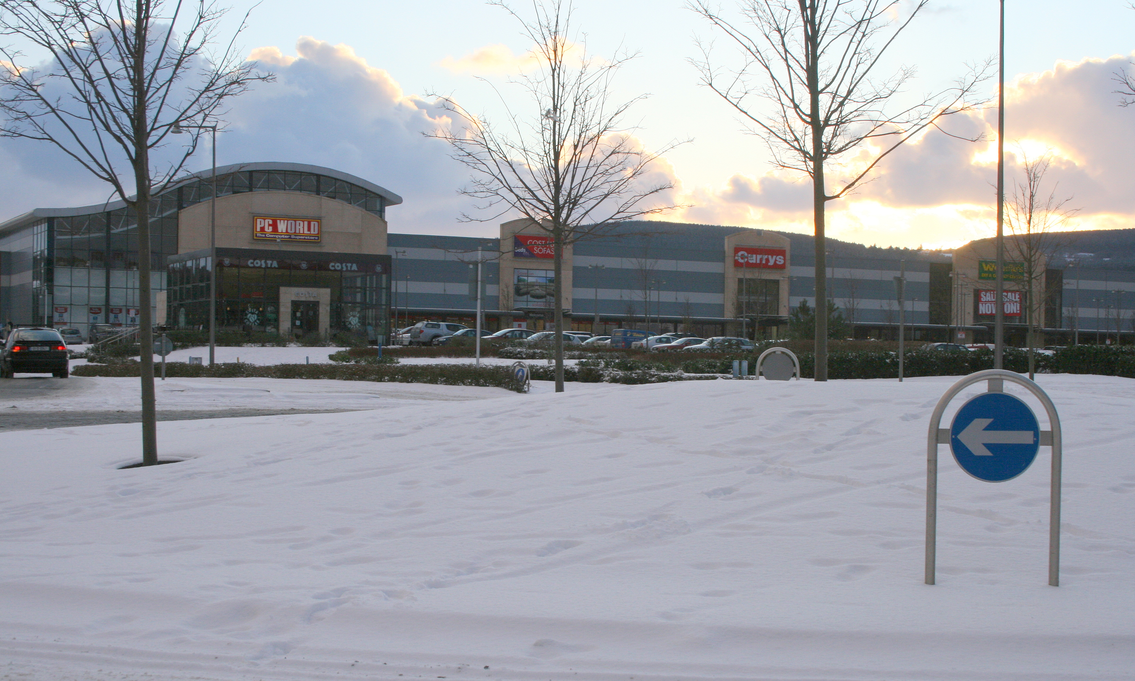 Retail Phase 1 at The Park, Carrickmines, Dublin 18